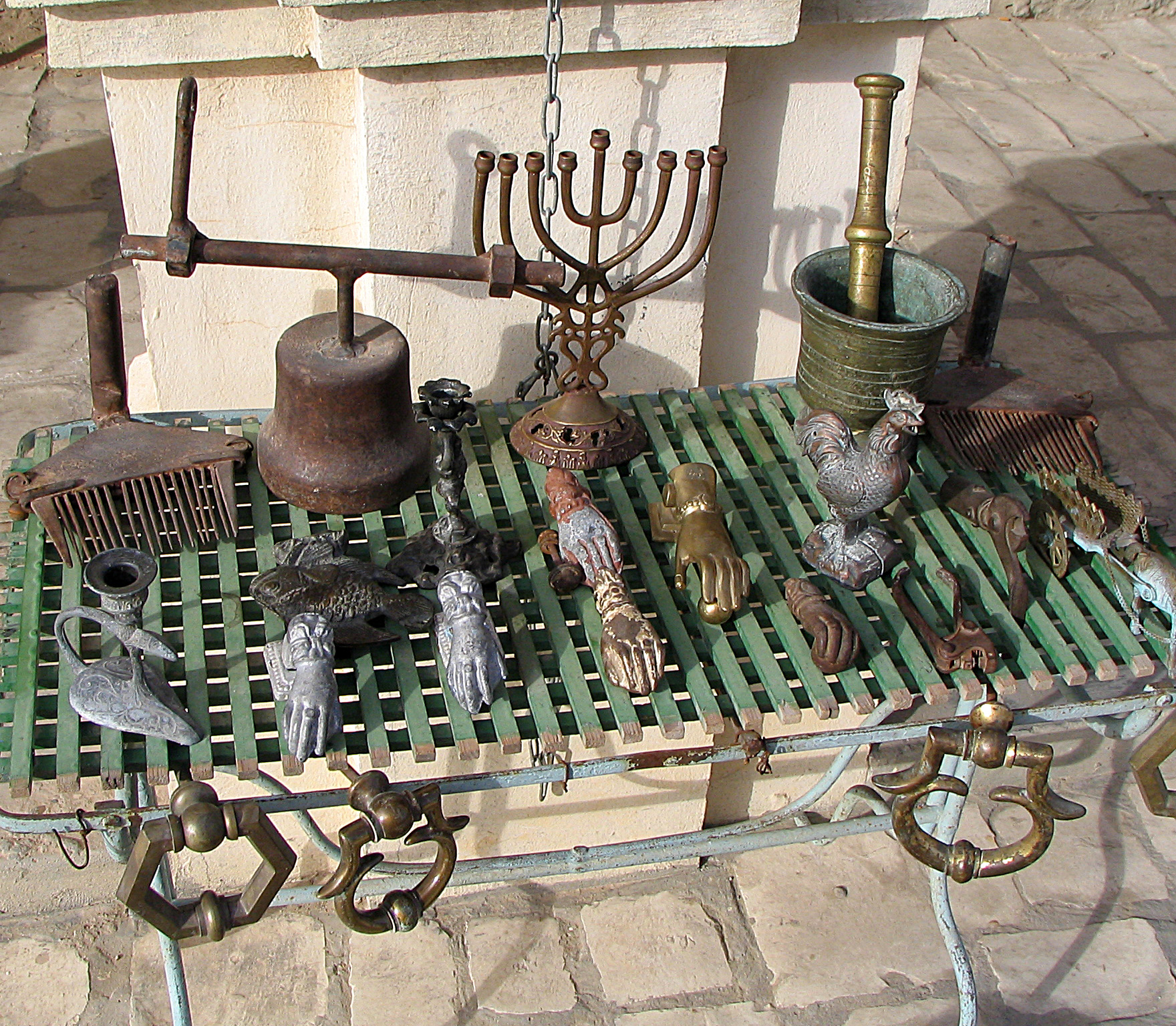 Flea market in El Jem